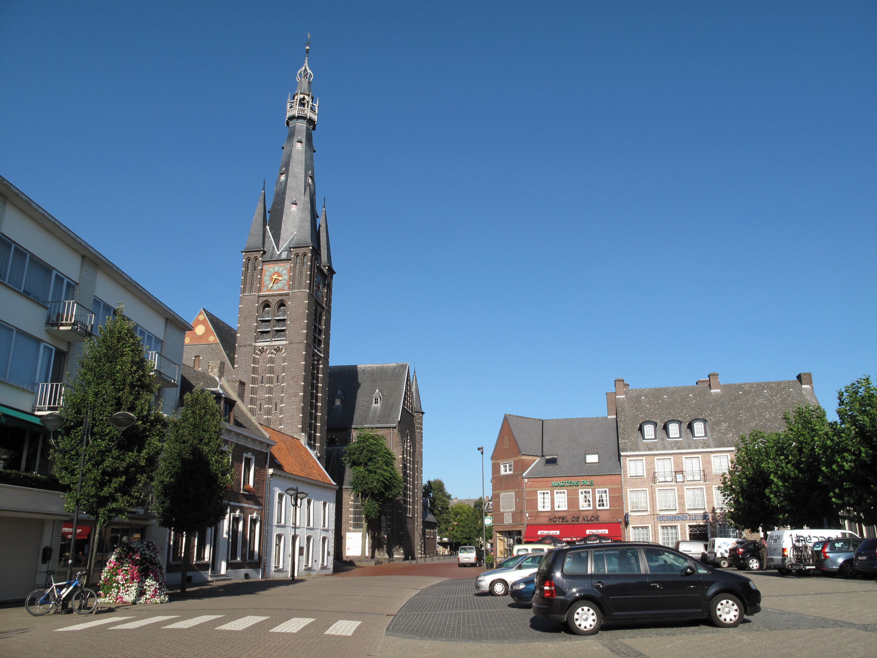 Hamont, church